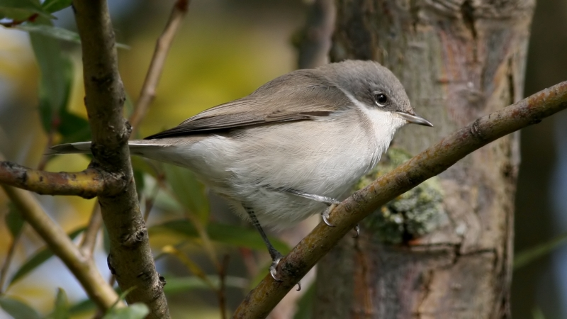 Lesser Whitethroat (Sylvia curruca)